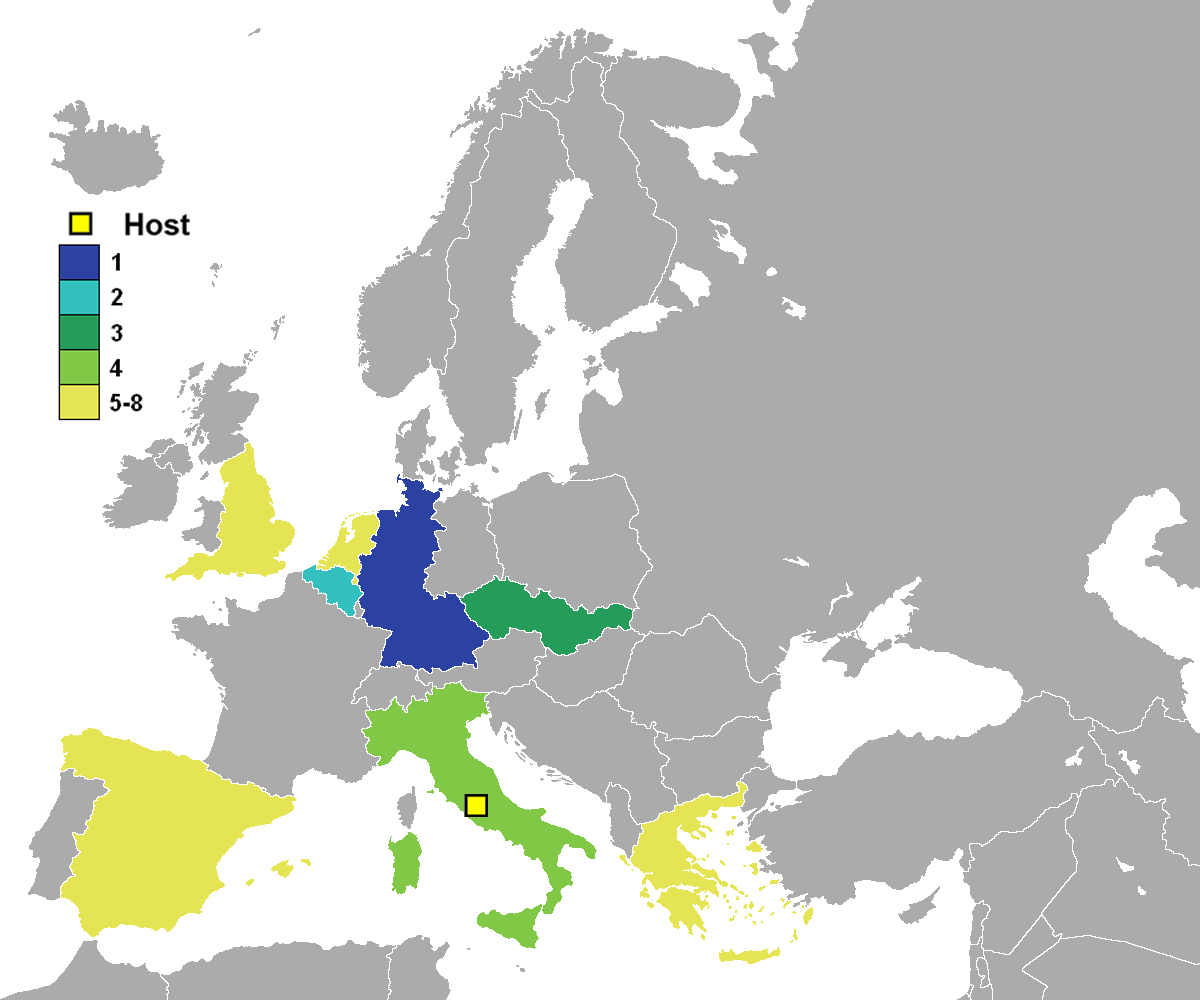 UEFA European Football Championship 1980 final team ranking, showing: Winner (dark blue) Runner-up (light blue) 3rd (dark green) 4th (light green) Quarterfinalists (yellow) Yellow square is host nation (Italy).